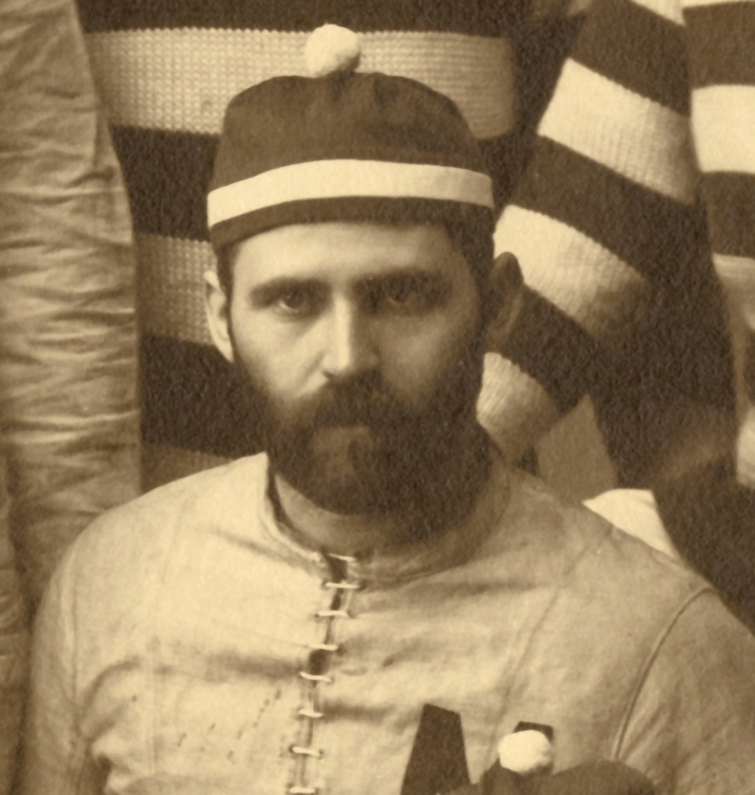 Photograph of Horace Prettyman